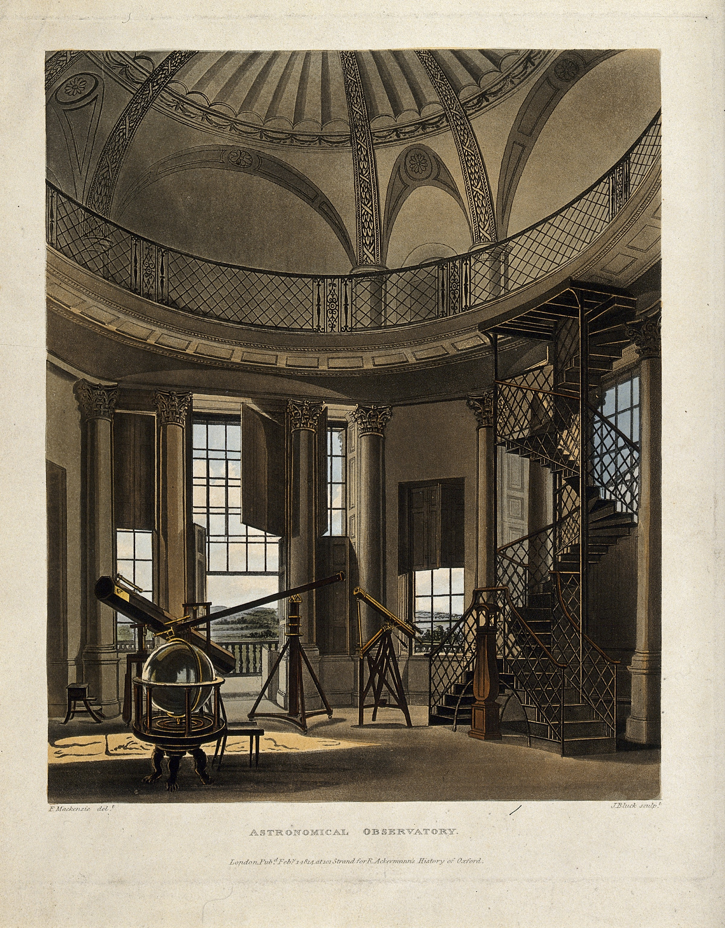 Astronomical observatory on the top floor of the Radcliffe Observatory, Oxford. Coloured aquatint by J. Bluck, 1813, after F. Mackenzie. Iconographic Collections Keywords: Frederick Mackenzie; James Wyatt; University of Oxford; J. Bluck; Henry Keene; oxford; observatories; Astronomy